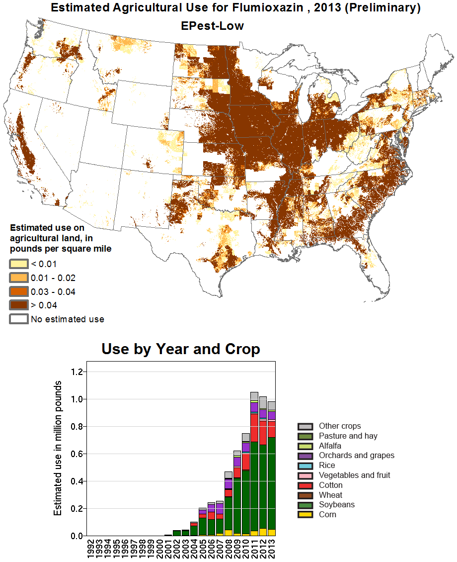 Flumioxazin map of use, USA, 2013 (estimated)